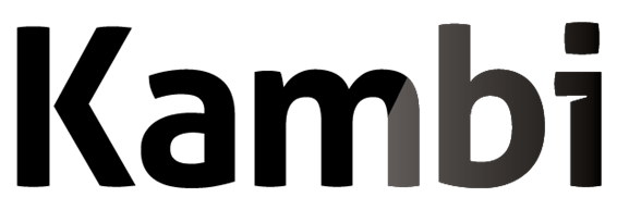 Kambi, Kambi logo,Kambi Sportsbook